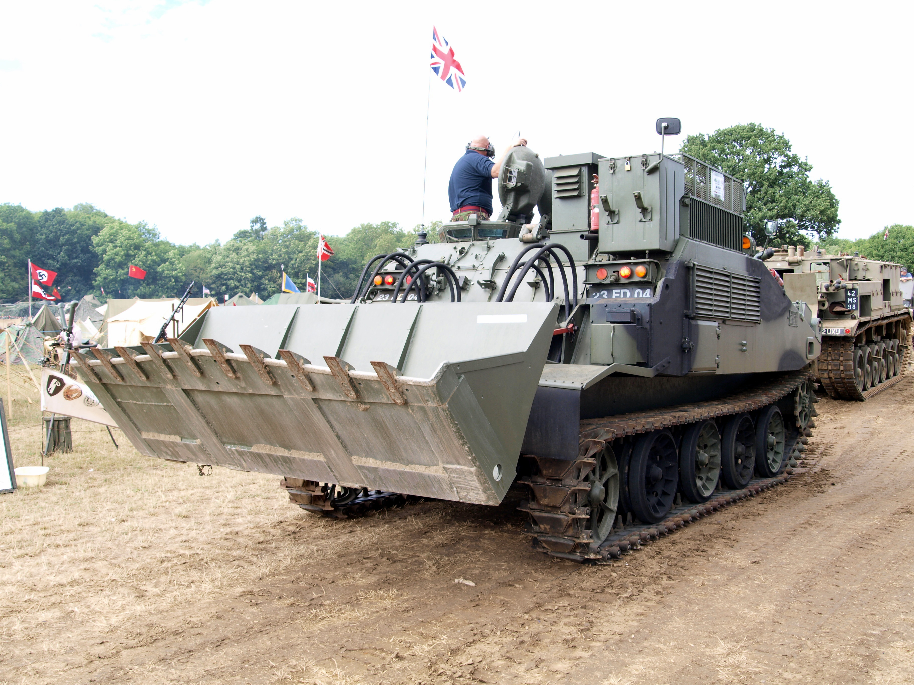 FV180 Comabat Engineer Tractor (CET)